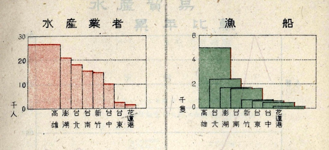 A bar-graph in a fishery report of 1943 Taiwan